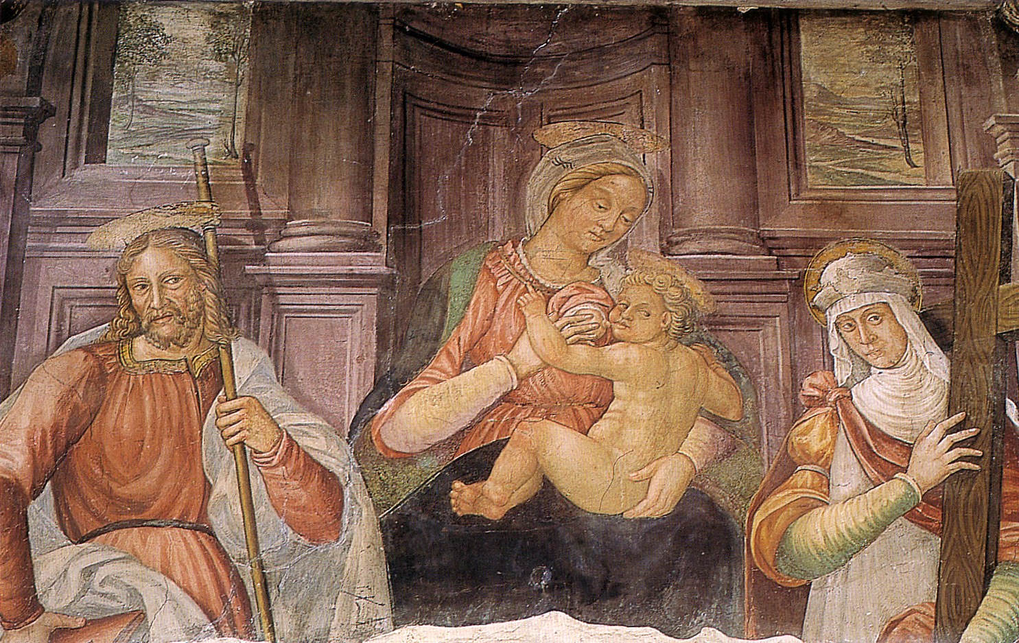 Fresco in the former Monte Pio in Montevarchi